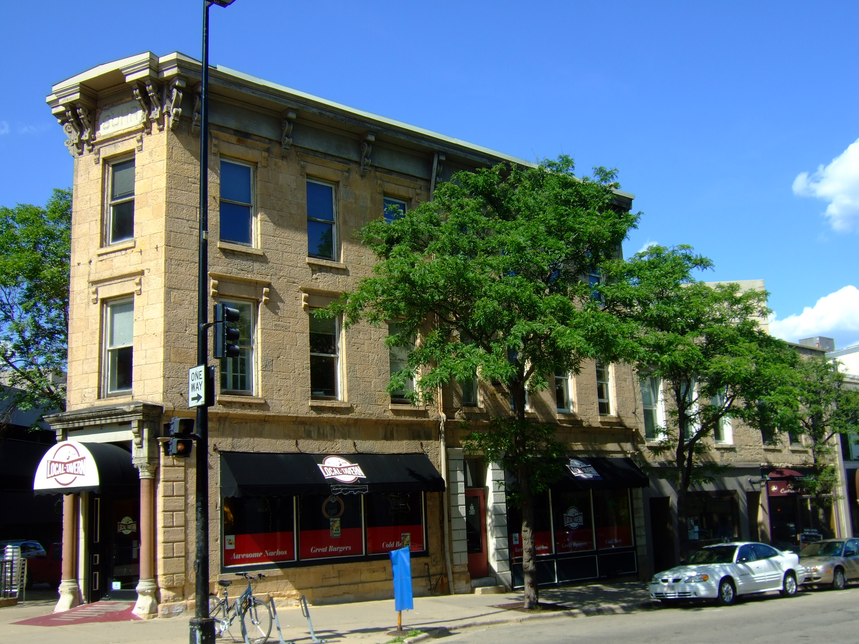 Simeon Mills Historic District in Madison, Wisconsin. Added to the National Register of Historic Places in 1978.